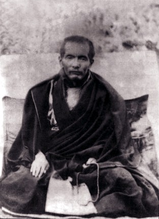 Amdo Geshe Jampel Rolpai Lodro b.1888 - d.1936